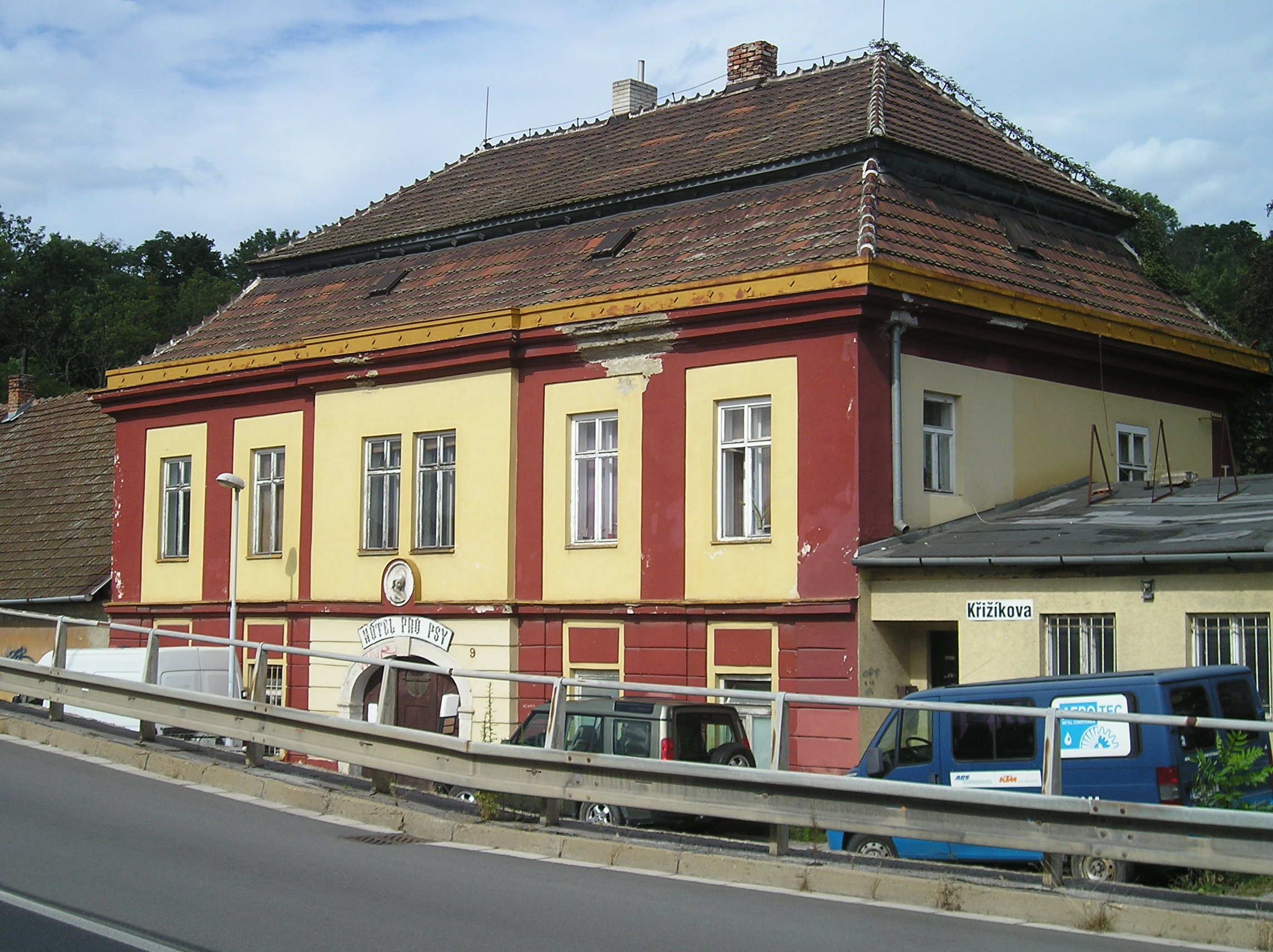 Villa Geduld in Brno Kralovo Pole